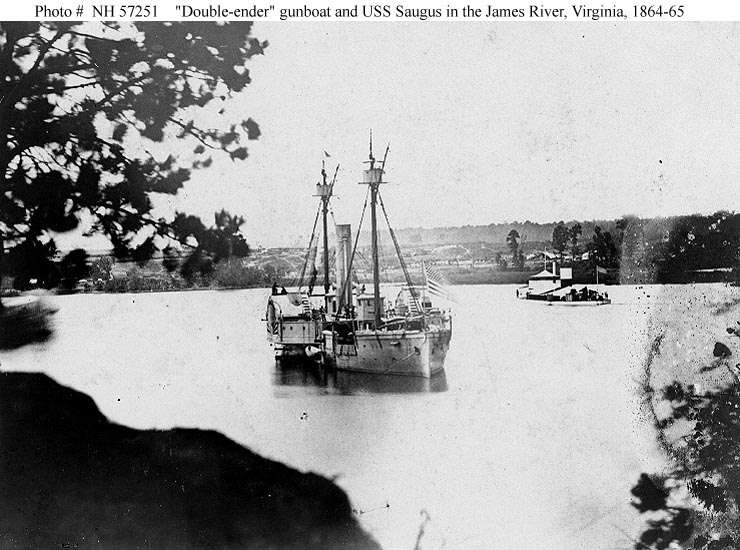 A "Double-Ender" gunboat. In the James River, Virginia, 1864-65. Originally identified as USS Agawam (1864-1867), this ship differs from her in detail. It has been identified in published sources as USS Mackinaw (1864-1867). The monitor in the right background is USS Saugus (1864-1891).